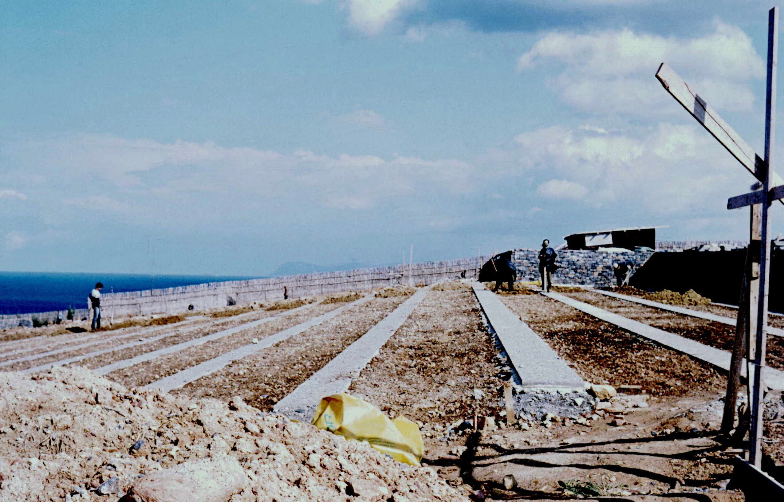 The German Military Cemetery at Maleme, Crete, is under contruction. Picture taken in February, 1973